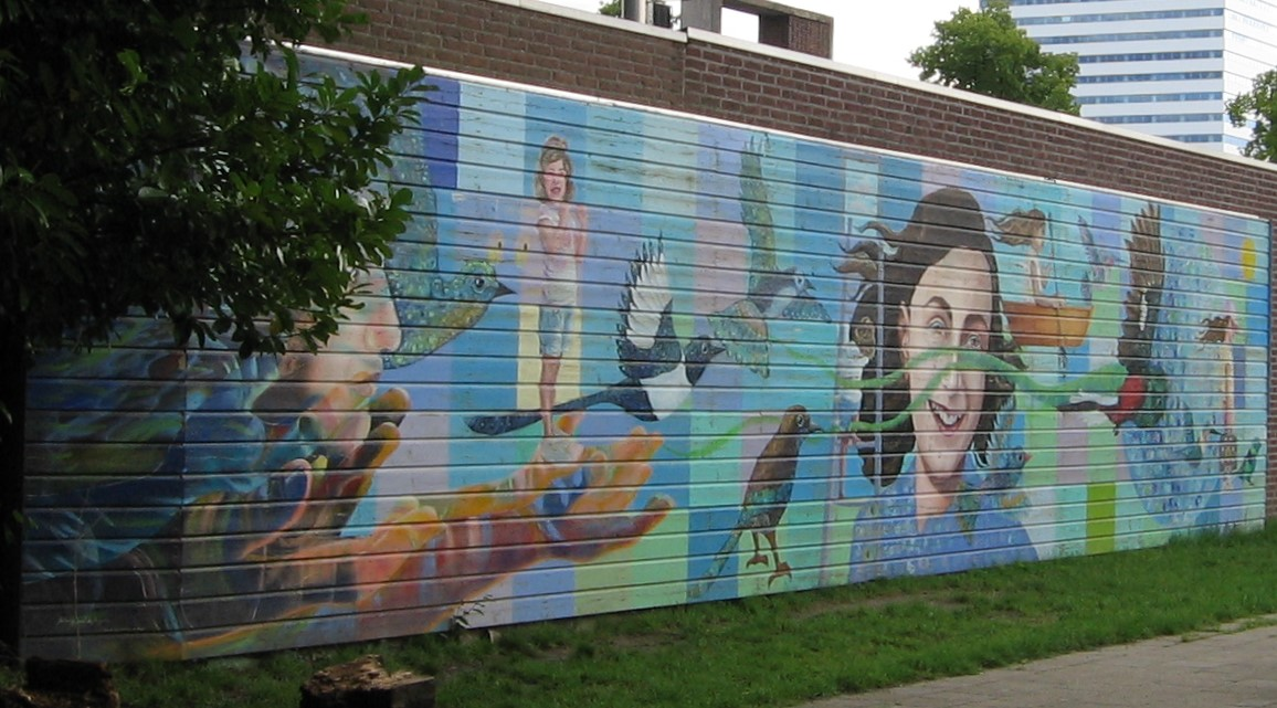 Byron Gómez Chavarría (Bygocha d’Amalia): Anne Frank mural at the playground of the Anne Frankschool (a municipal primary school), van Bijnkershoeklaan 280, Utrecht, the Netherlands. Dutch newspaper article by Nadine Ancher: Kunstenaar maakt muurschildering voor Utrechtse Anne Frankschool, Algemeen Dagblad 13-10-17.